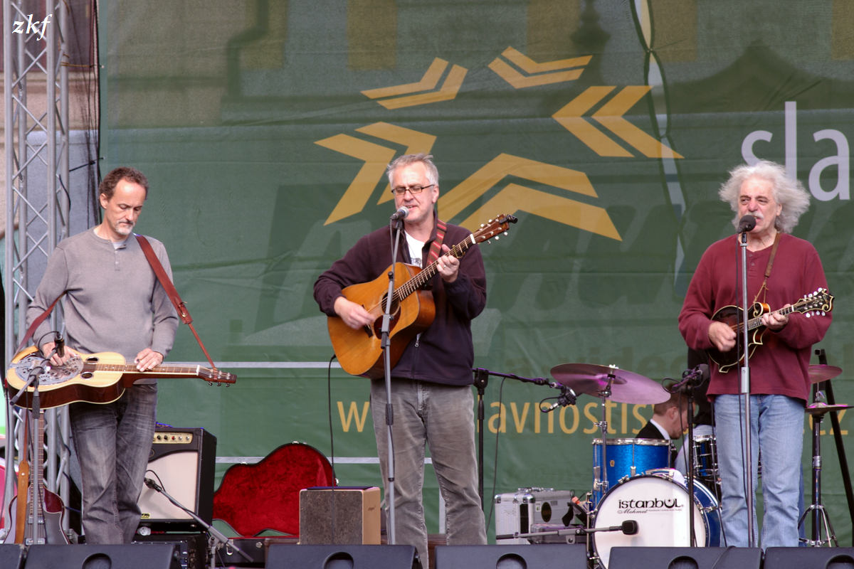 Druhá tráva (Second grass) on the Liberation festival in Pilsen, May 2014 (Luboš Novotný, Emil Formánek, Robert Křesťan)